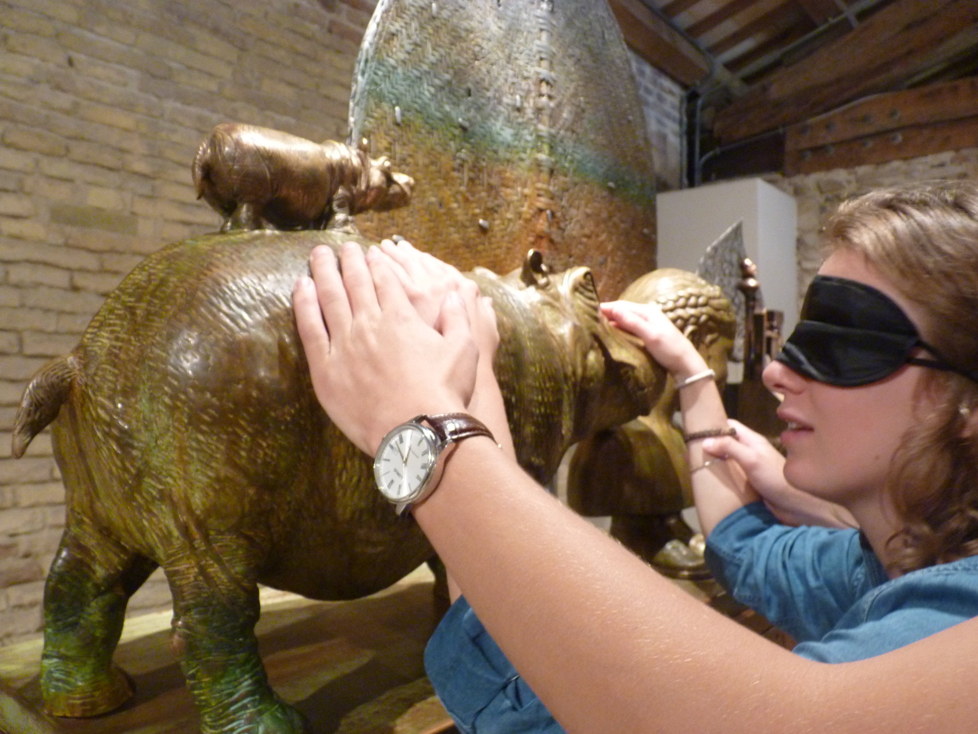 Contemporary art section of the Homer State tactile Museum